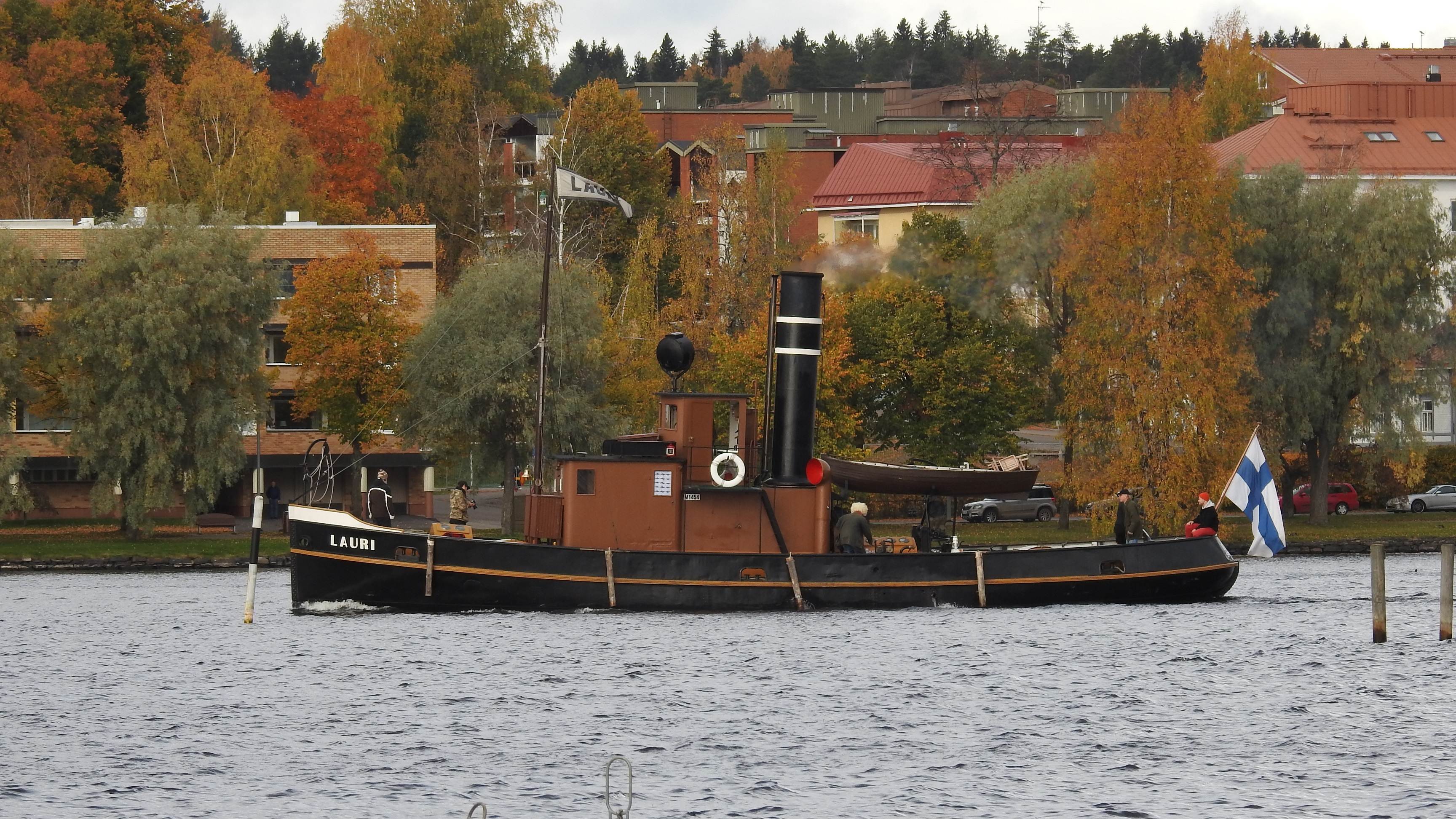 S/S Lauri (Pihlajavesi, Karvalakkiregatta 2016)